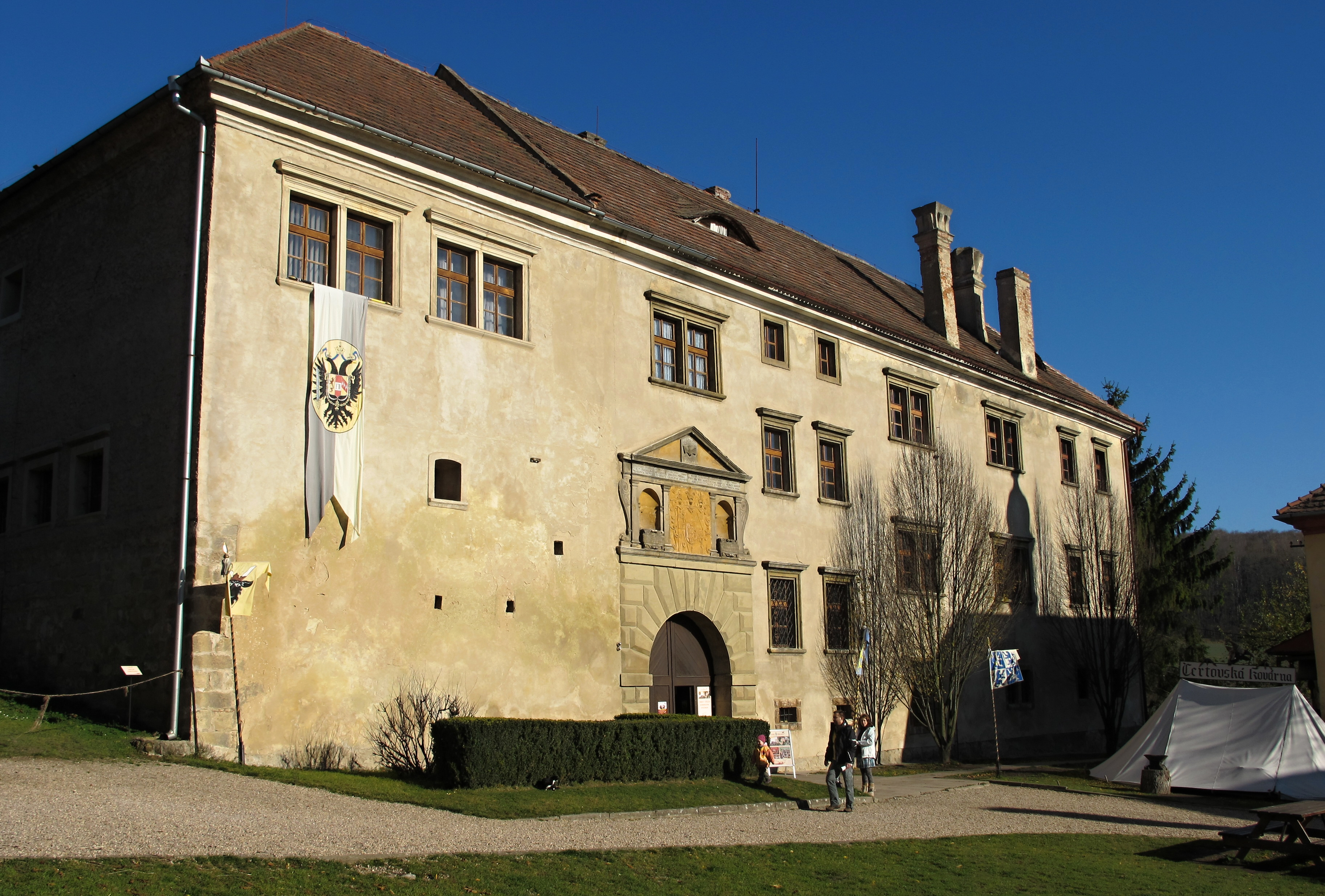 Renaissance Castle in Staré Hrady, Jičín District